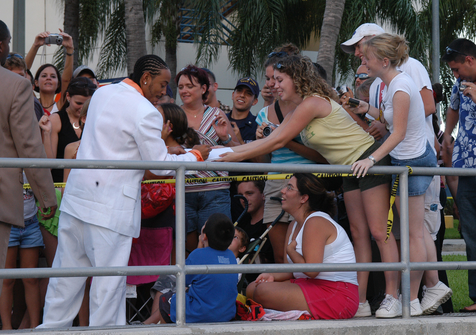 MIAMI (Aug. 29, 2004) -- MTV 2004 Video Music Awards performer Ludacris signs autographs for Coast Guard personnel and dependants onboard Integrated Support Command Miami. Pependeants lined up to see the stars two hours before they arrived at the Coast Guard base to be escorted on yachts to the American Airlines Arena. USCG photo by PA2 Anastasia Burns.